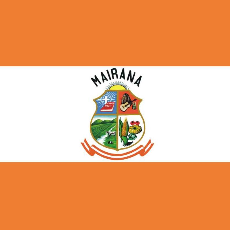 Flag Mairana